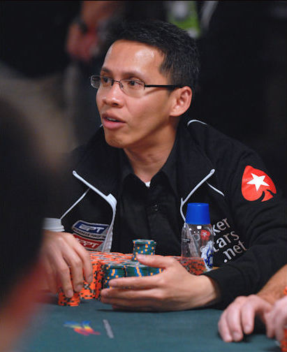 Darus Suharto playing at the 2008 World Series of Poker